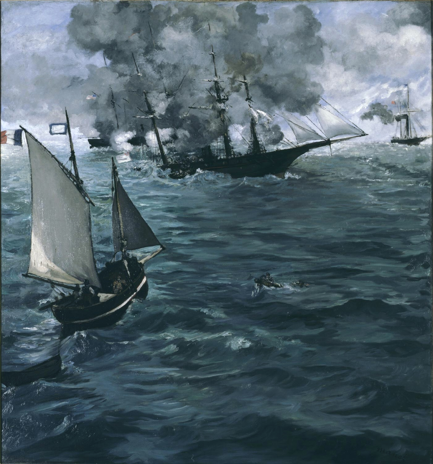 A picture of the Battle of Cherbourg, between the Kearsarge and the Alabama, june 19th, 1864. The battle is a part of the American Civil War.